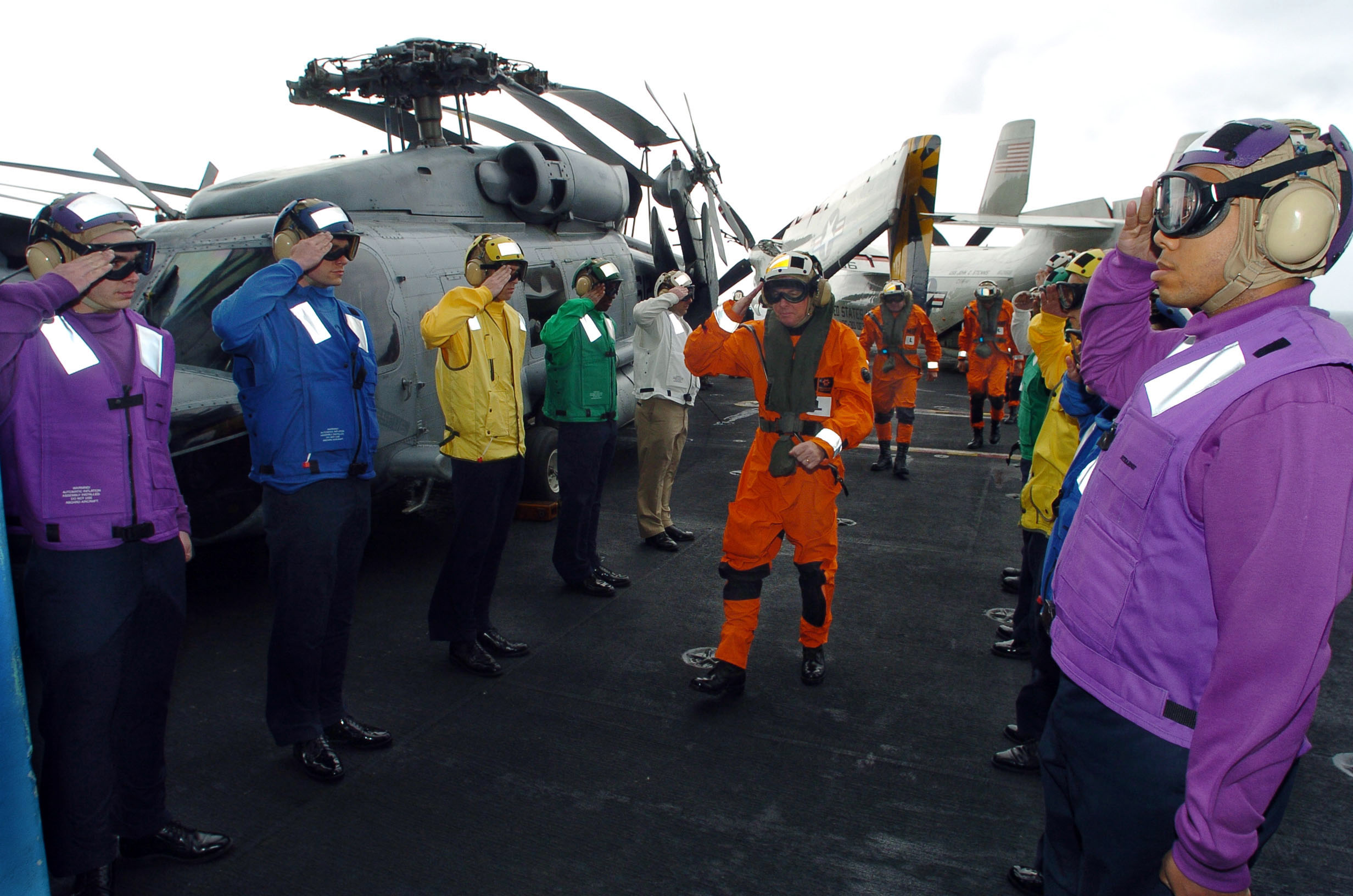 Gulf of Alaska, 8 June 2004: Admiral Thomas B. Fargo, Commander, U.S. Pacific Command is rendered honors by "rainbow sideboys" on the flight deck aboard the aircraft carrier USS John C. Stennis (CVN-74). Stennis and embarked Carrier Air Wing Fourteen (CVW-14) were at sea participating in a scheduled deployment. On US carriers the flight deck crew - here called "rainbow sideboys" - are wearing coloured flight deck jerseys in order to identify their trades in the noise: Yellow: Aircraft handling officers, Catapult and Arresting Gear Officers, Plane directors Green: Catapult and arresting gear crews, Air wing maintenance personnel, Air wing quality control personnel, Cargo-handling personnel, Ground Support Equipment (GSE) troubleshooters, Hook runners, Photographer's Mates, Helicopter landing signal enlisted personnel (LSE) White: Squadron plane inspectors, Landing Signal Officer (LSO), Air Transfer Officers (ATO), Liquid Oxygen (LOX) crews, Safety Observers, Medical personnel Red: Ordnancemen, Crash and Salvage Crews, Explosive Ordnance Disposal (EOD) Blue: Plane Handlers, Aircraft elevator Operators, Tractor Drivers, Messengers and Phone Talkers Purple: aviation fuel handlers Brown: Air wing plane captains, Air wing line leading petty officers